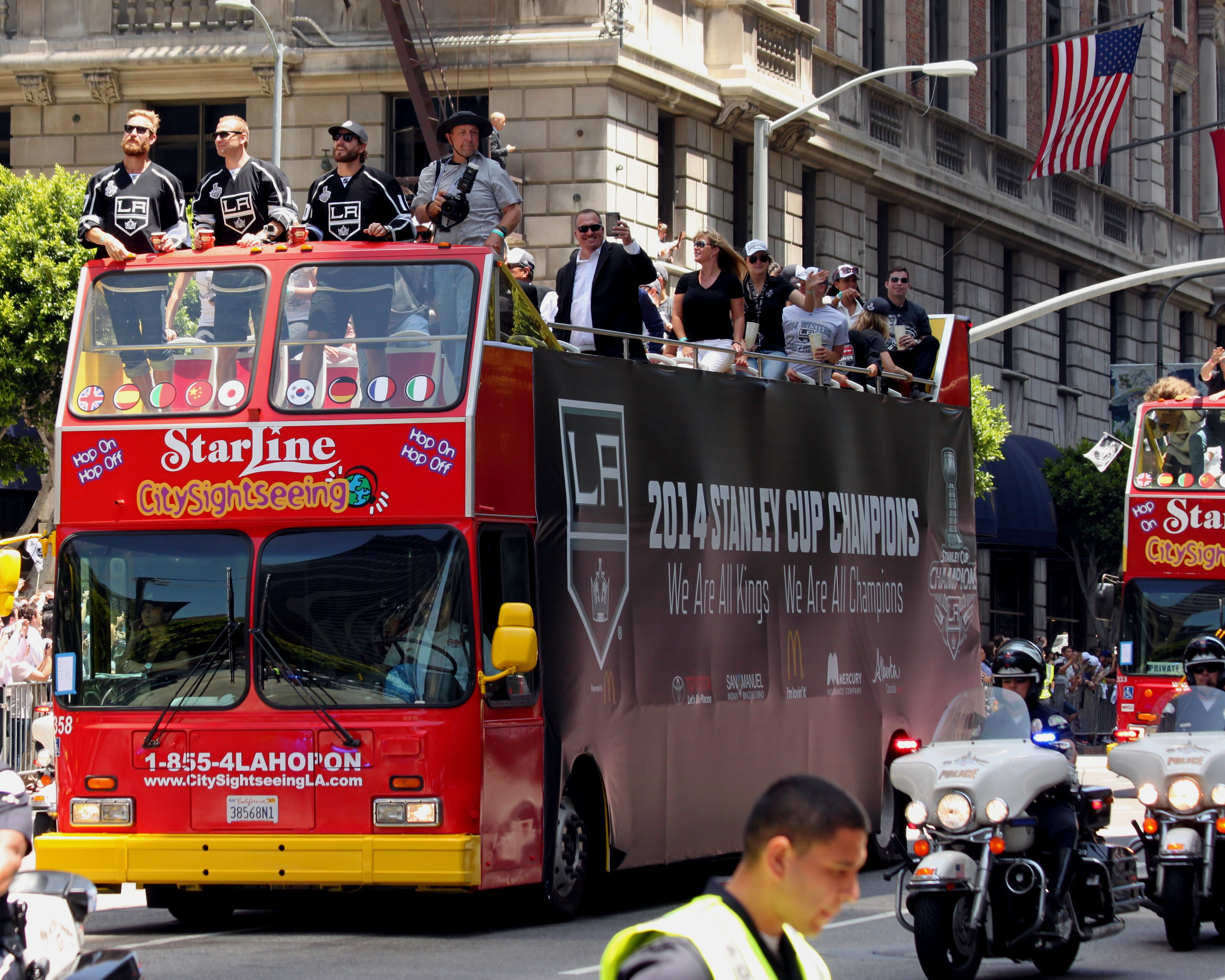 LA Kings Victory Parade Down Town Los Angeles, California